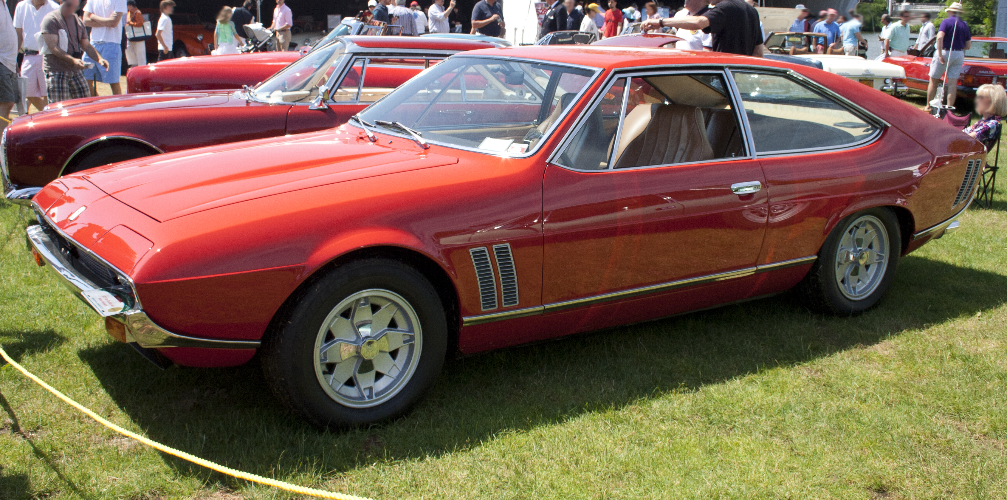 1973 Iso (Rivolta) Lele, seen at the 2012 Greenwich Concours d'Elegance.